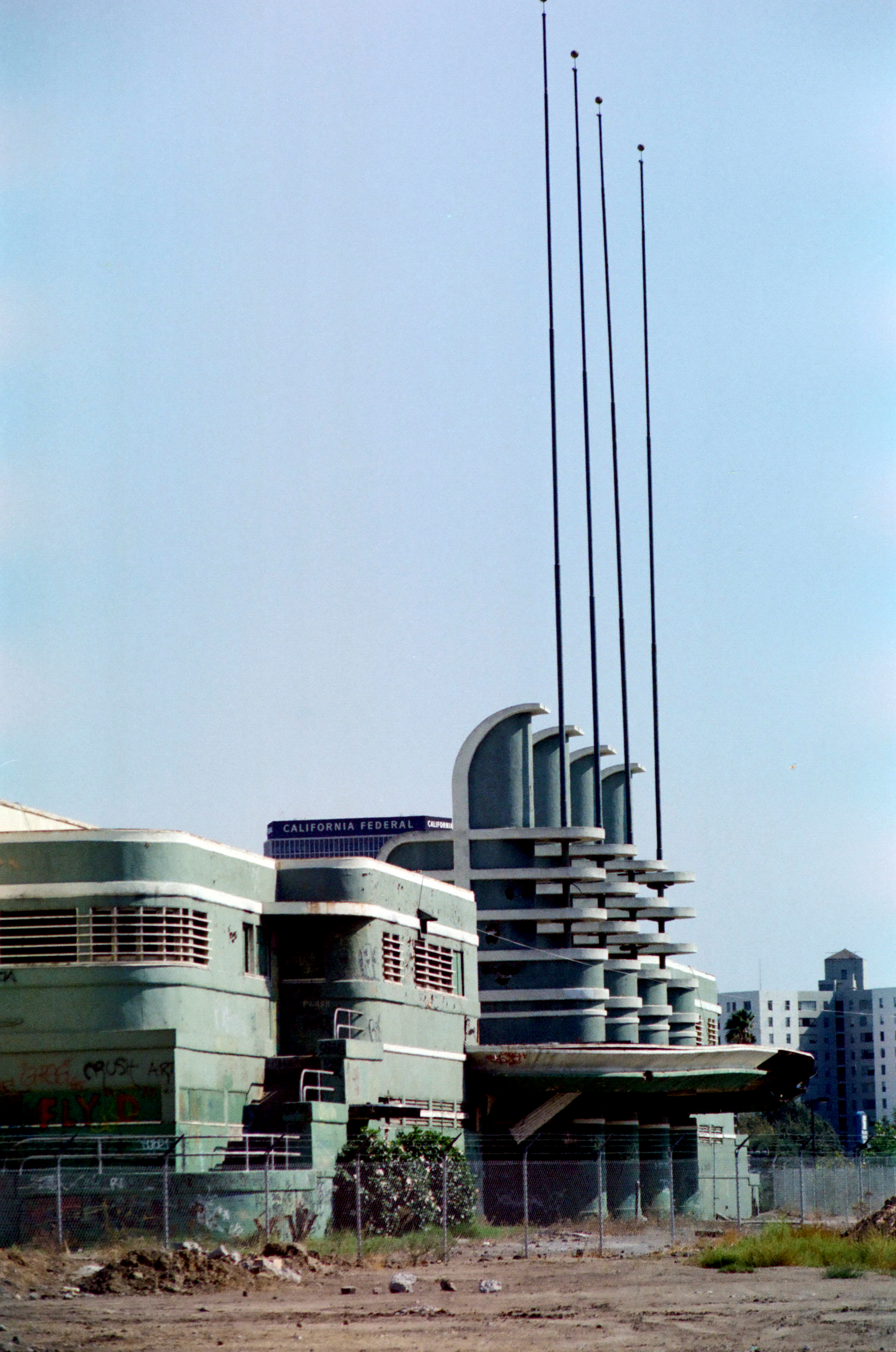 Pan Pacfic Auditorium